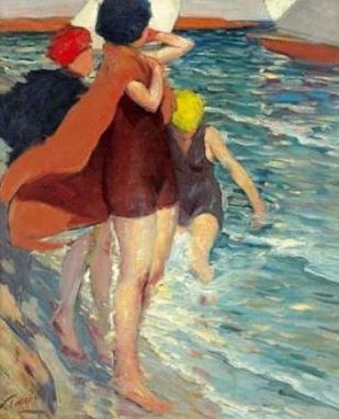 Bathers and Sailboats